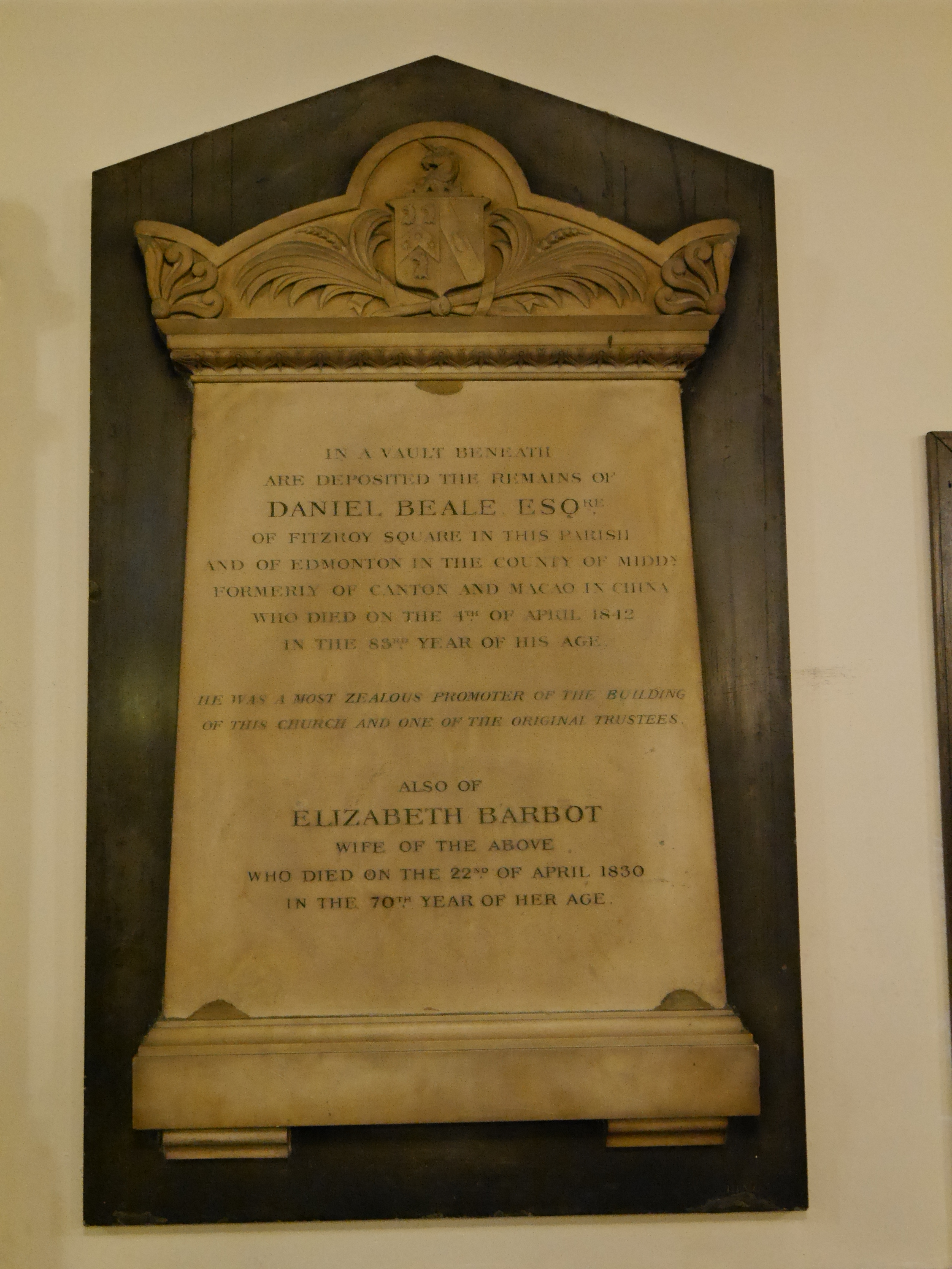 St Pancras New Church, February 2015